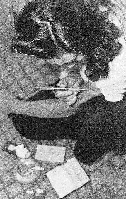 Philopon dependent patient in 1950s